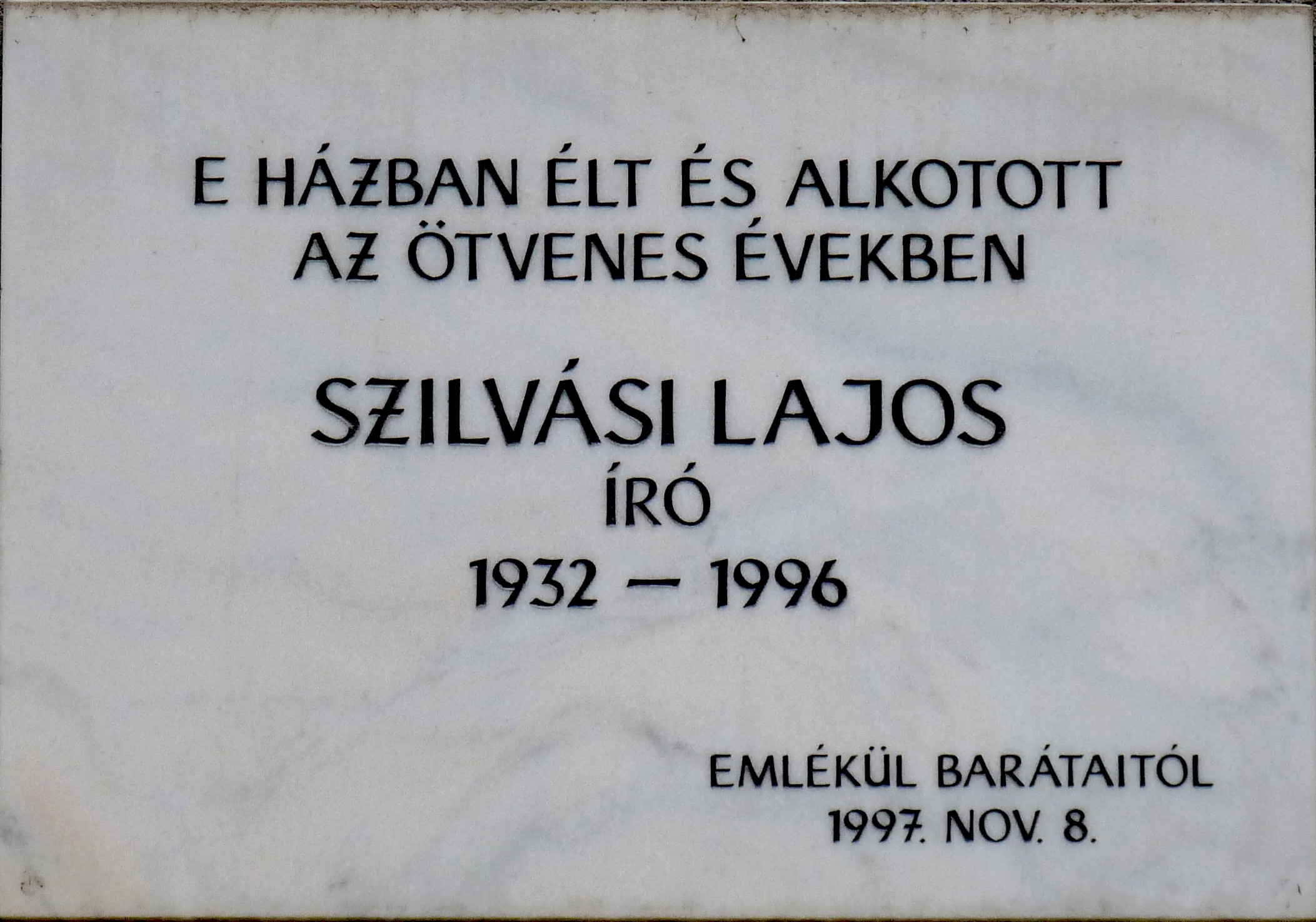 Lajos Szilvási commemorative plaque in Budapest District VII, Síp Street No 24.